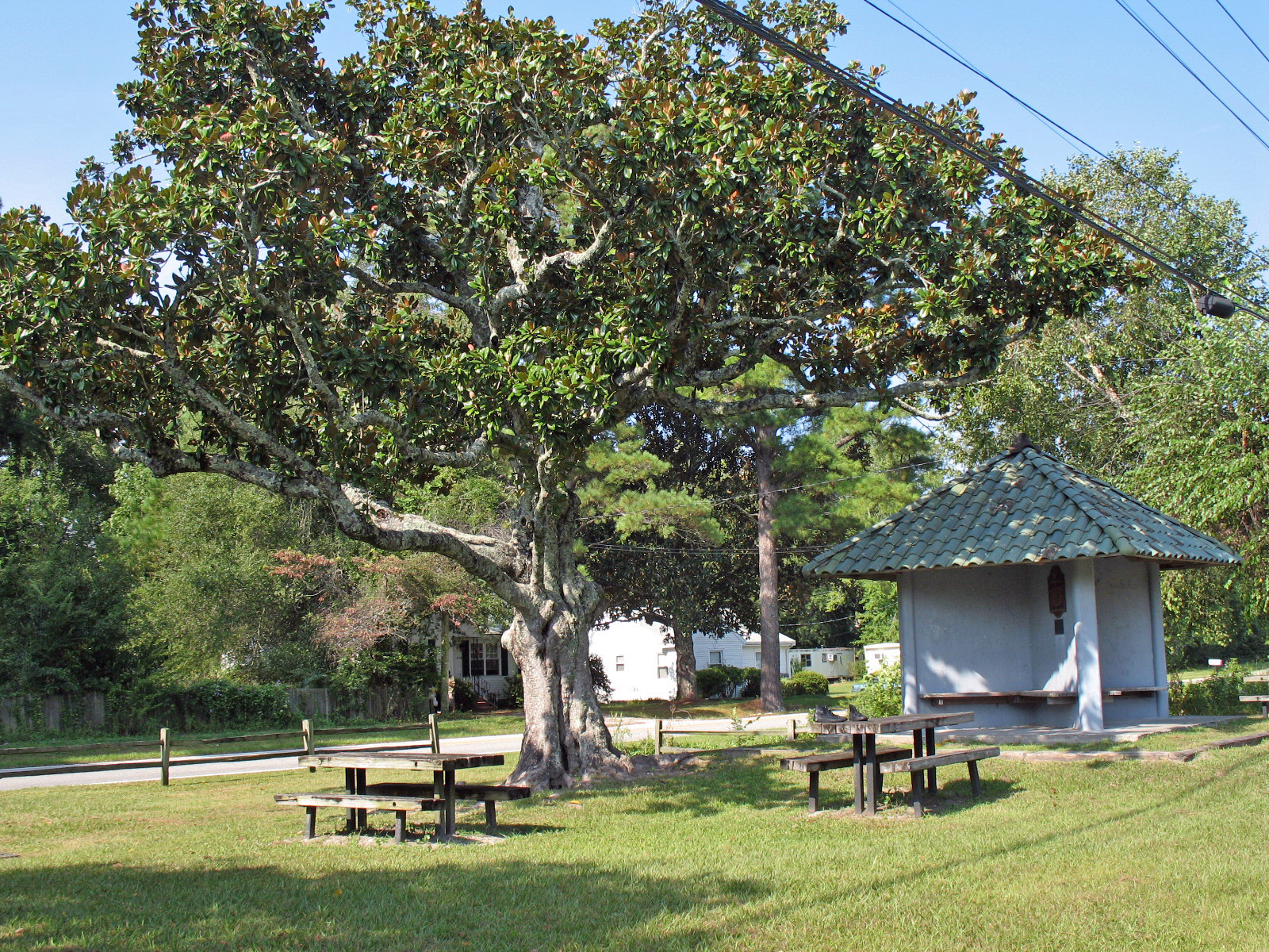 National Register of Historic Places listings in New Hanover County, North Carolina. Audubon Trolley Station, Park Ave & Audubon Blvd, Wilmington, NC. Photographed September 20, 2009 from the grounds to the east of the building near the intersection of Park Ave. and Audubon Blvd.